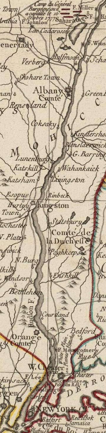 This is a detail from the source map, depicting the Hudson River Valley between Saratoga and New York City. Some features are inaccurate: Fort Montgomery is incorrectly depicted on the east side of the river.